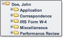 This screenshot shows what a filing system for a Human Resources department may look like within DynaFile's document management software.